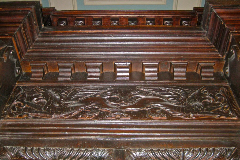 Two carved dragons on the screen (1634) in the hall of Jesus College, Oxford. The dragons perhaps reflect the college's traditional Welsh links (the red dragon being one of the national symbols of Wales).